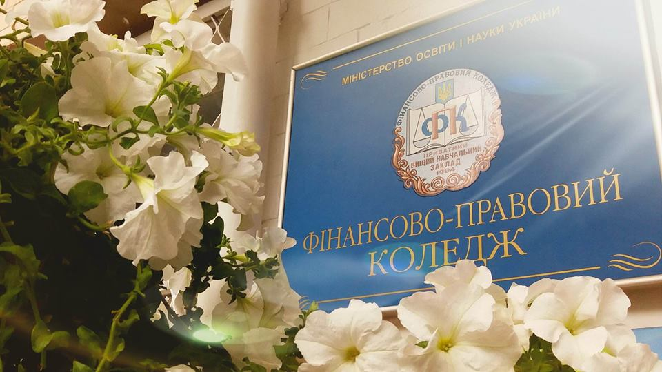 the FPC front door picture